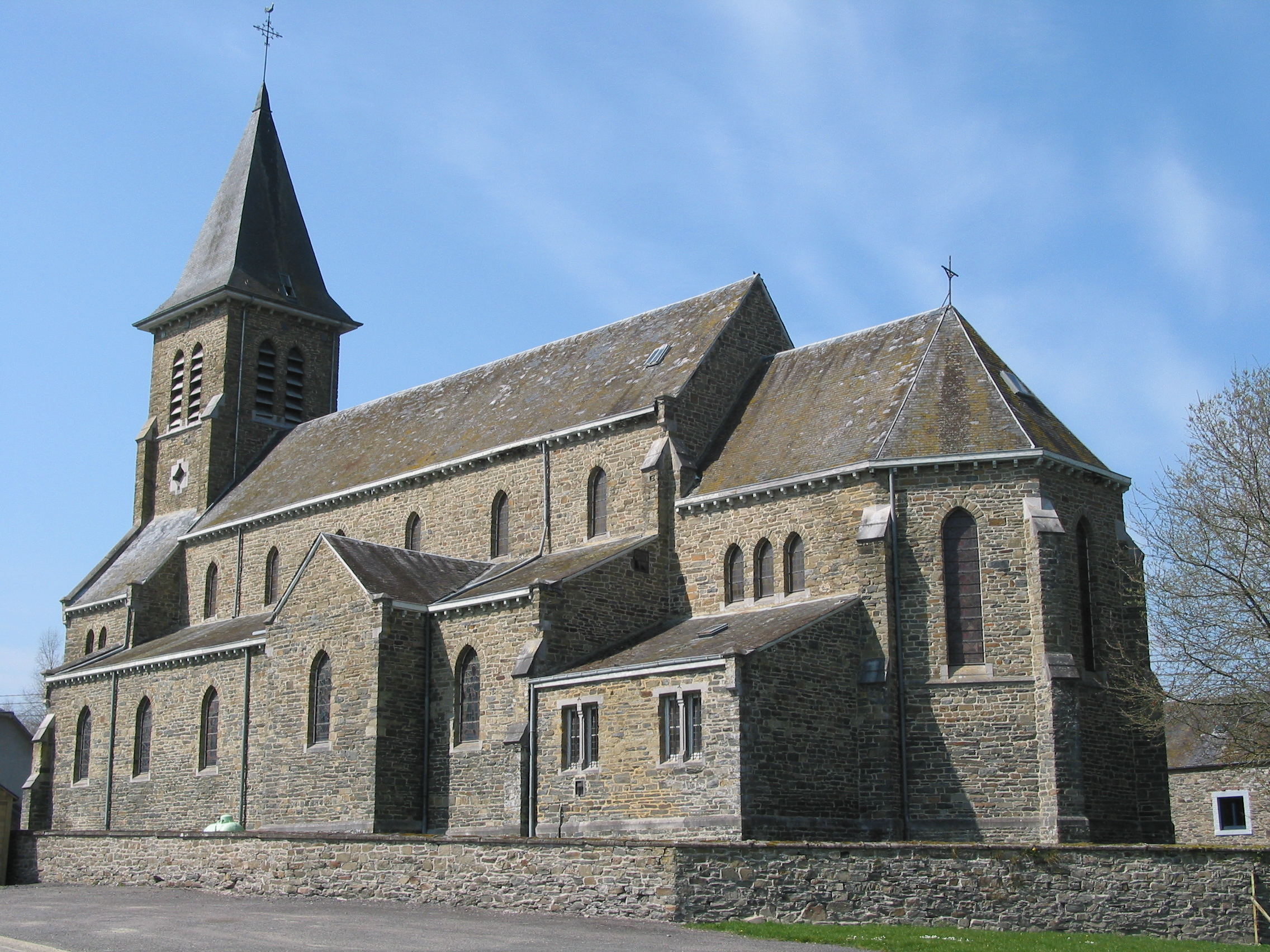 Givroulle (Belgium), the St. Hubert church (1902-1903).